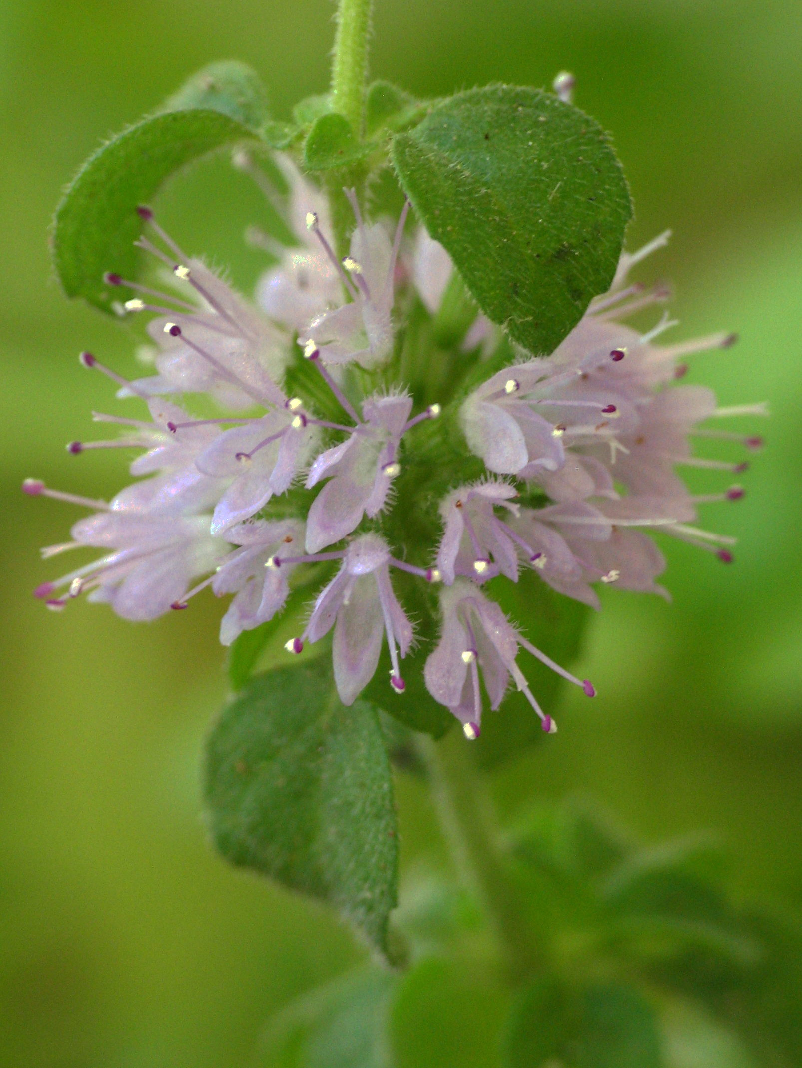 Pennyroyal flower (Mentha pulegium)